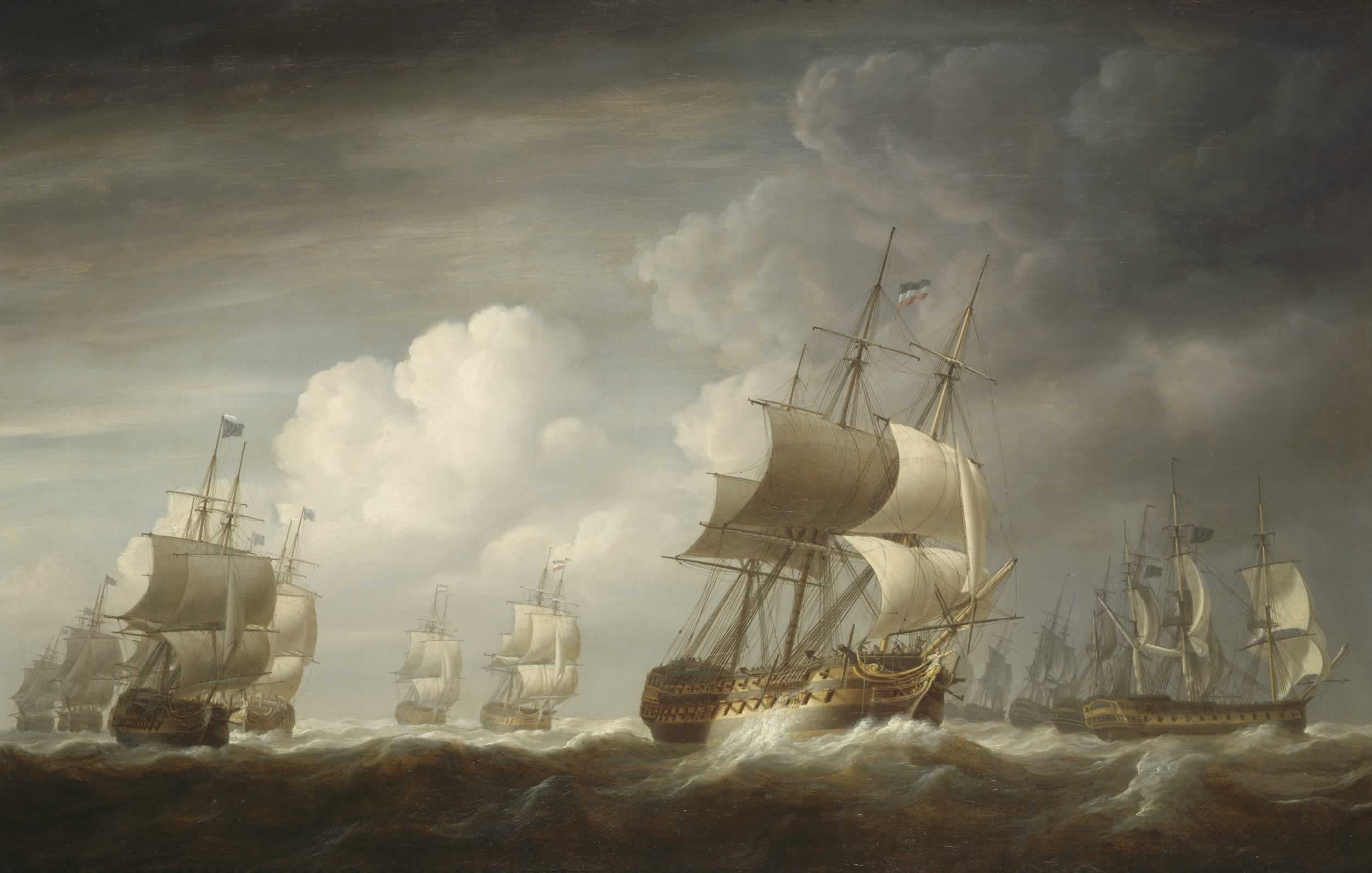 This painting has the alternative title 'Ships of the East India Company at Sea' but was exhibited at the Royal Academy in 1803 as 'The Hindostan, G. Millet[t], commander, and senior officer of eighteen sail of East Indiamen, with the signal to wear, sternmost and leewardmost ships first'. (That is, for the fleet to alter course to the opposite tack, in the sequence indicated, with the wind astern.) It is believed to represent the convoy under George Millett, as commodore, during their return voyage from China early in 1802. The 'Hindostan', in the centre, was a large East Indiaman of 1248 tons, built in 1796 to replace a previous vessel of the same name that had been sold to the Navy. The new 'Hindostan' undertook three voyages in the service of the Company, the last being the one illustrated. On 11 January 1803, at the start of a fourth voyage, she was lost during a heavy gale on Margate Sands with up to thirty of her crew. Eleven of the other vessels in the convoy depicted here are known to have reached their moorings in England between 11 and 14 July 1802: the 'Lord Hawkesbury', 'Worcester', 'Boddam', 'Fort William', 'Airly Castle', 'Lord Duncan', 'Ocean', 'Henry Addington', 'Carnatic', 'Hope' and 'Windham'. The other ships have not been identified but are also presumed to have done so.